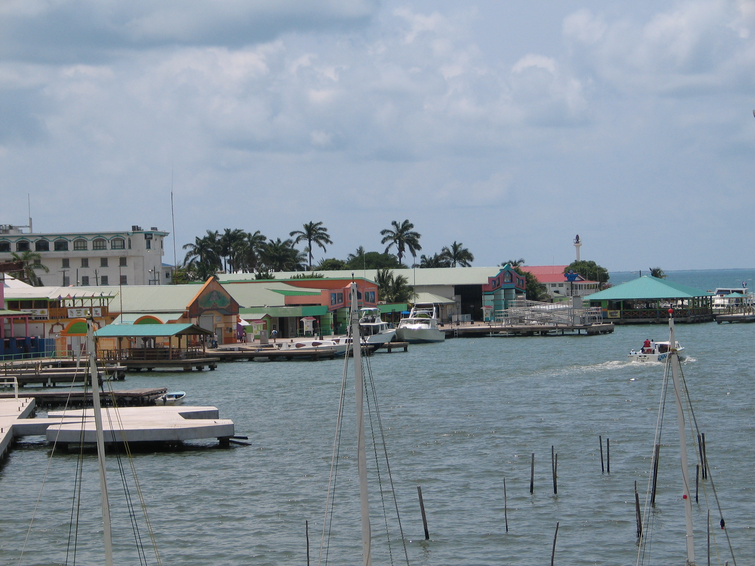 Fort George Tourism Boardwalk in Belize City, Belize.